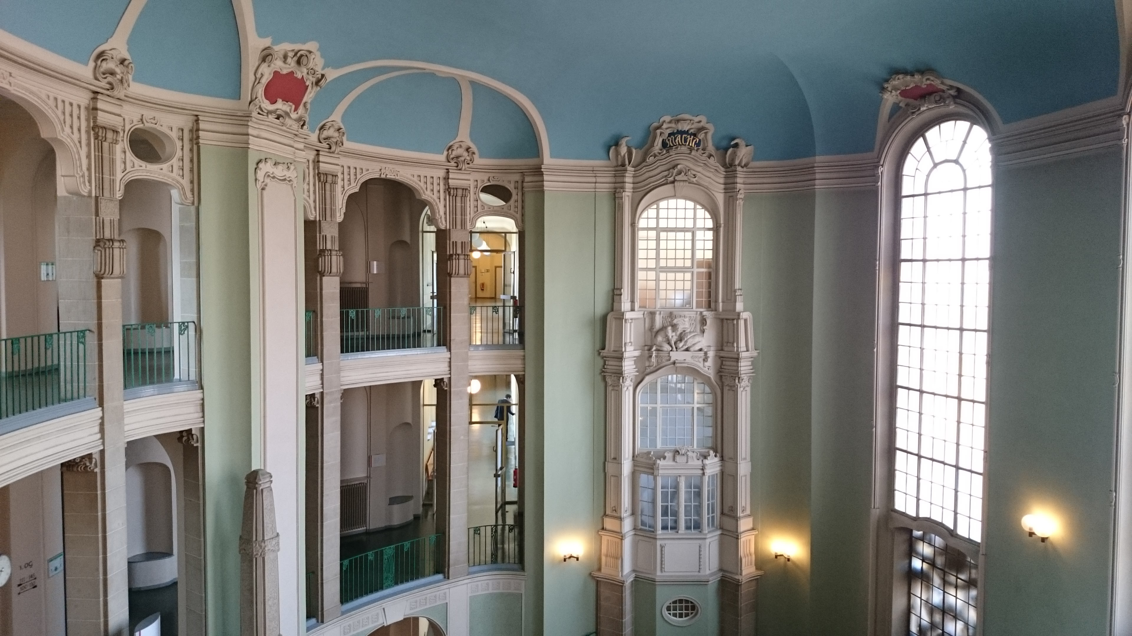 Interior view of district court building Berlin Schöneberg This is a photograph of an architectural monument.